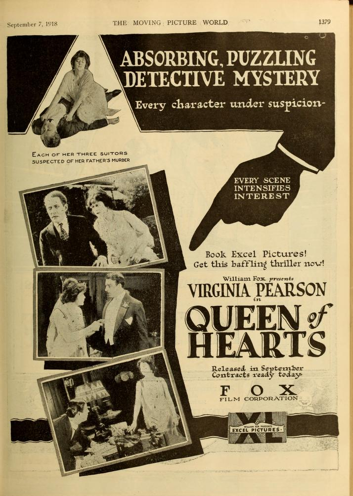 Advertisement in Moving Picture World for the American mystery film The Queen of Hearts (1918) with Virginia Pearson.